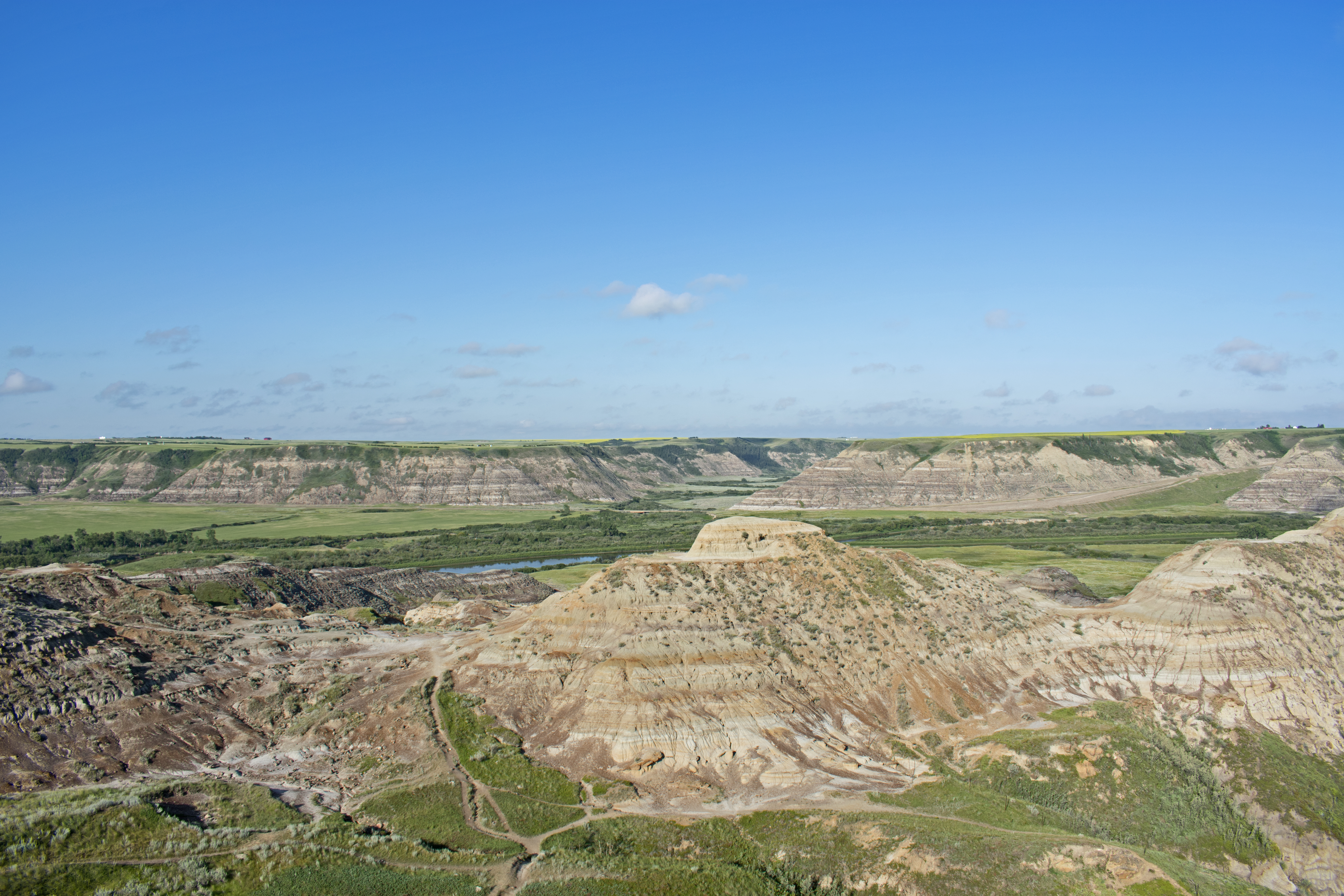 Horsethief Canyon from the parking lot